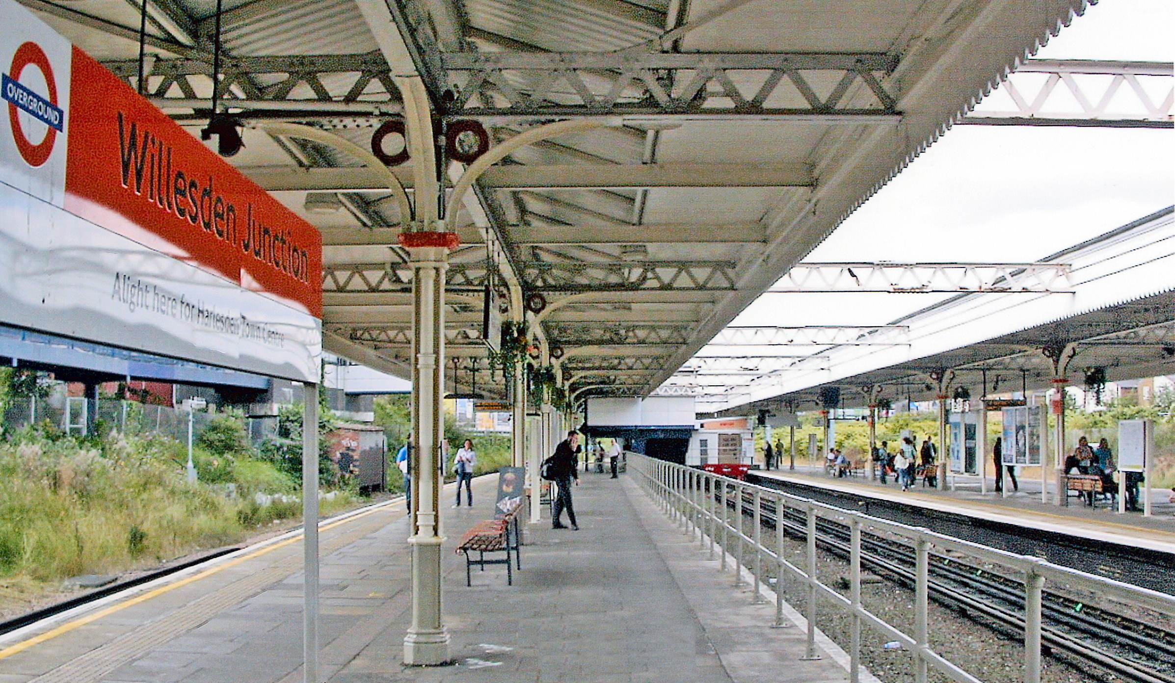 Willesden Junction ('New') Station. View westward, towards Harrow & Wealdstone and Watford Junction: ex-LNWR 'Watford DC' Line (Euston/(Broad Street via Camden Road, until 1986) - Watford Junction electric Line, also (from Queens Park) LUL Bakerloo Line Elephant & Castle - Harrow & Wealdstone (Watford Junction until 1982). This is Platform 1, Up trains from Watford Junction using the outer face of the island (Platform 3); the bay is Platform 3, for terminating trains.